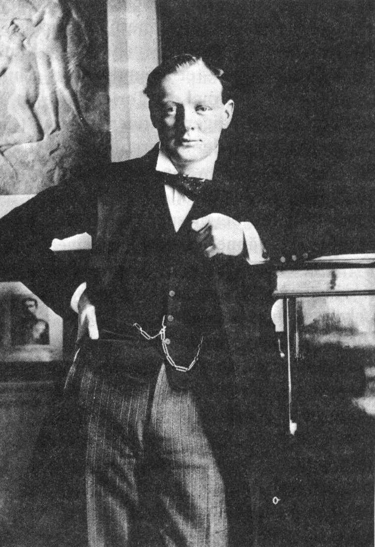 Winston Churchill as Member of Parliament in 1904.